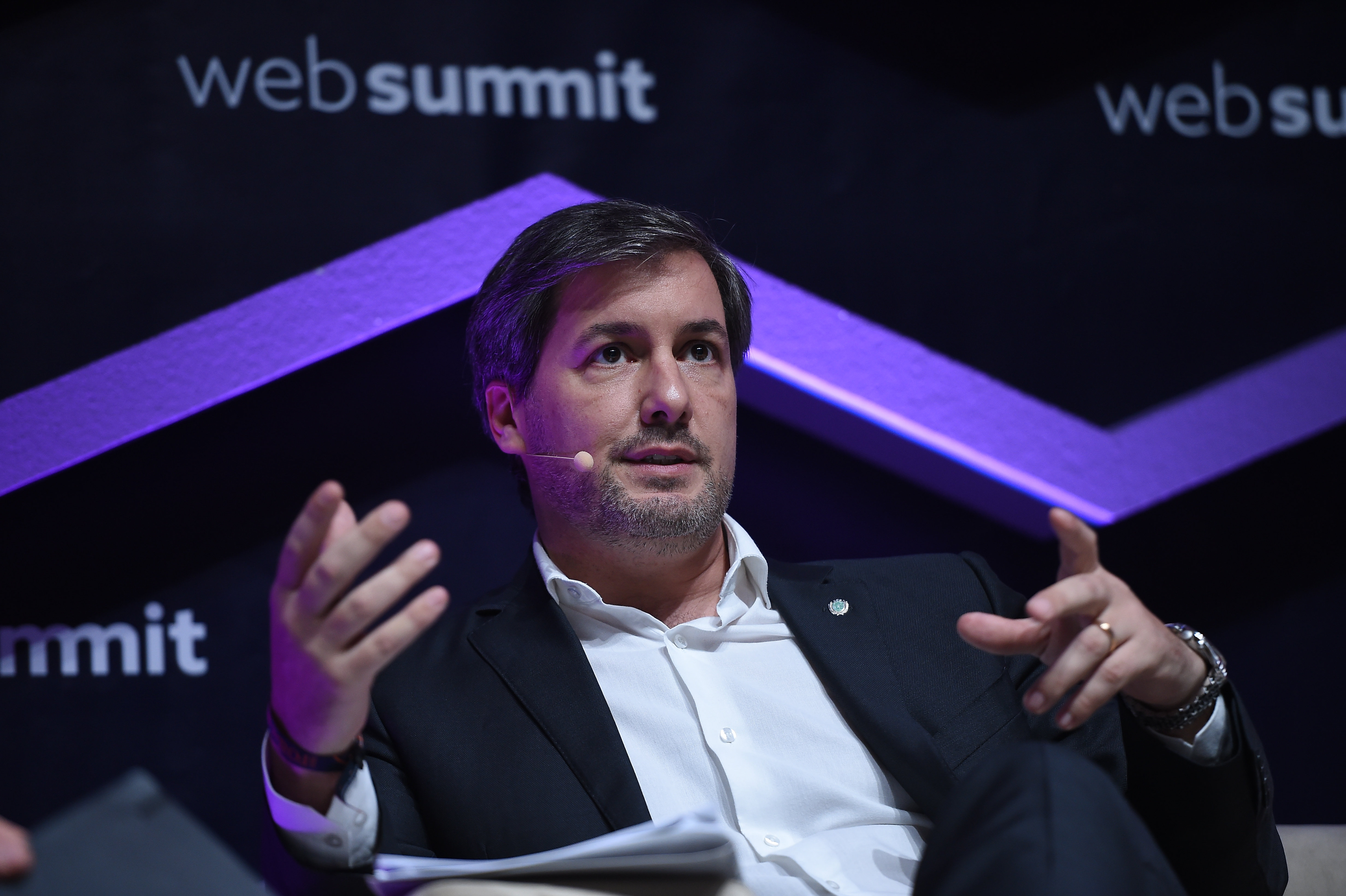 7 November 2017; Bruno de Carvalho, President, Sporting Clube de Portugal, on SportsTrade Stage, during the opening day of Web Summit 2017 at Altice Arena in Lisbon. Photo by Cody Glenn/Web Summit via Sportsfile